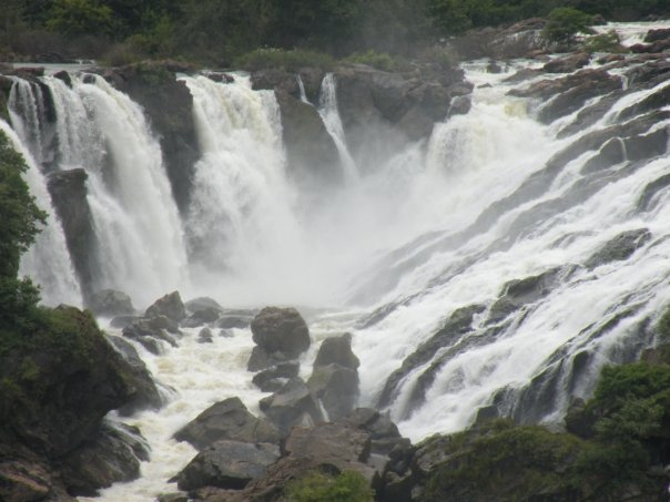 Depicted place: Shivanasamudra Falls